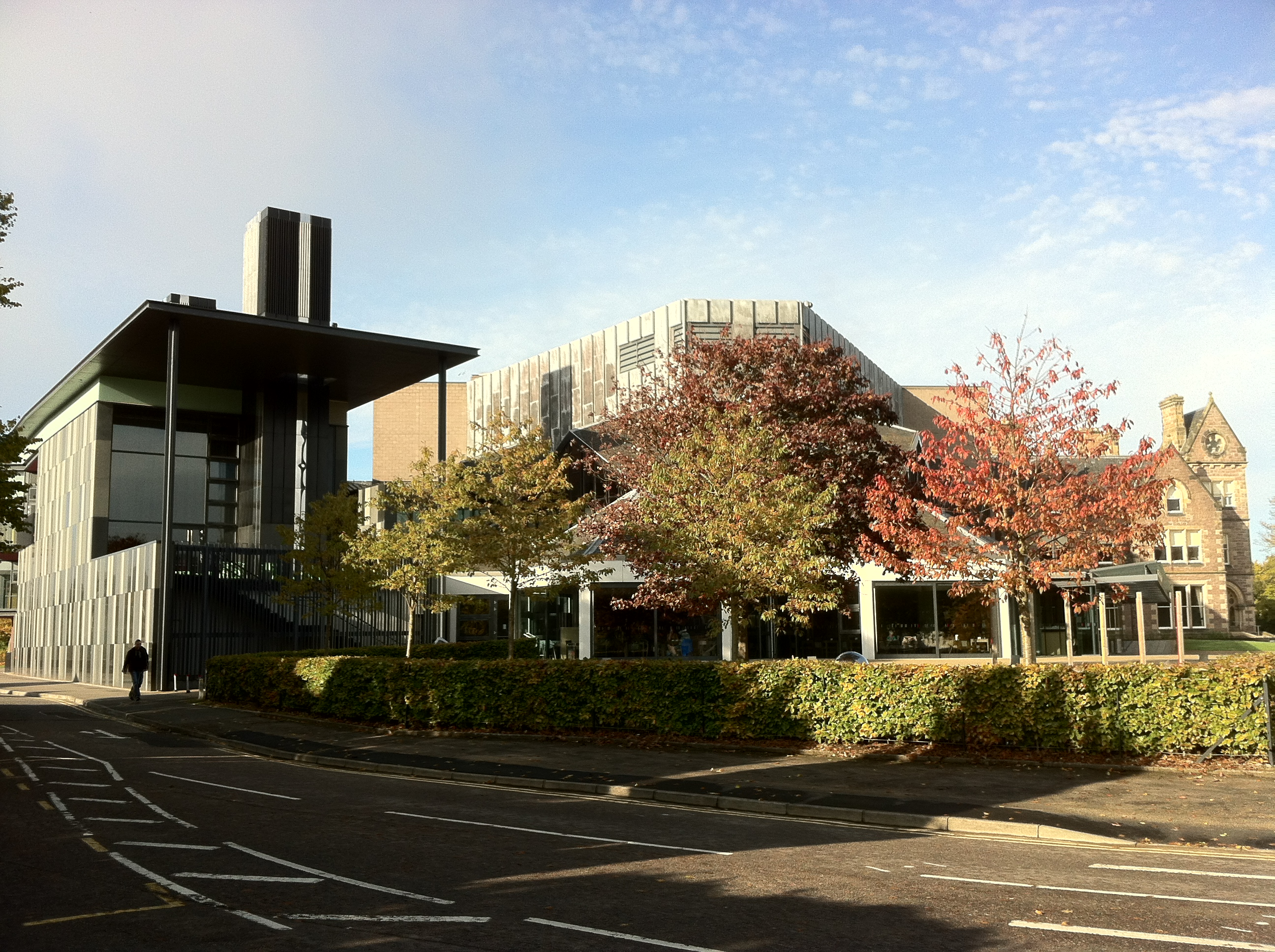 Eden Court Theatre